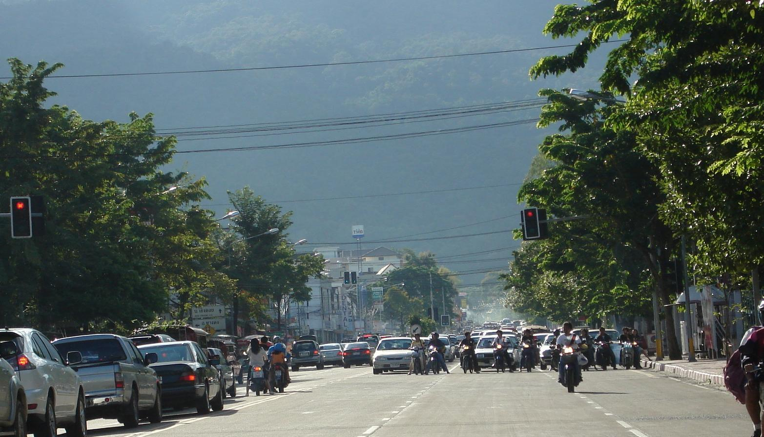 Traffic on Suthep road in Chiang Mai, Thailand